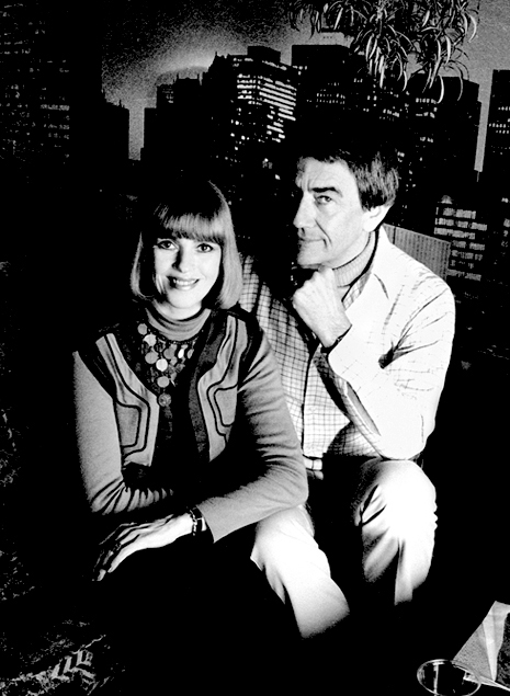 Jackie Cain and Roy Kral at Bach Dancing & Dynamite Society, Half Moon Bay CA, 1982. Photo by Brian McMillen /